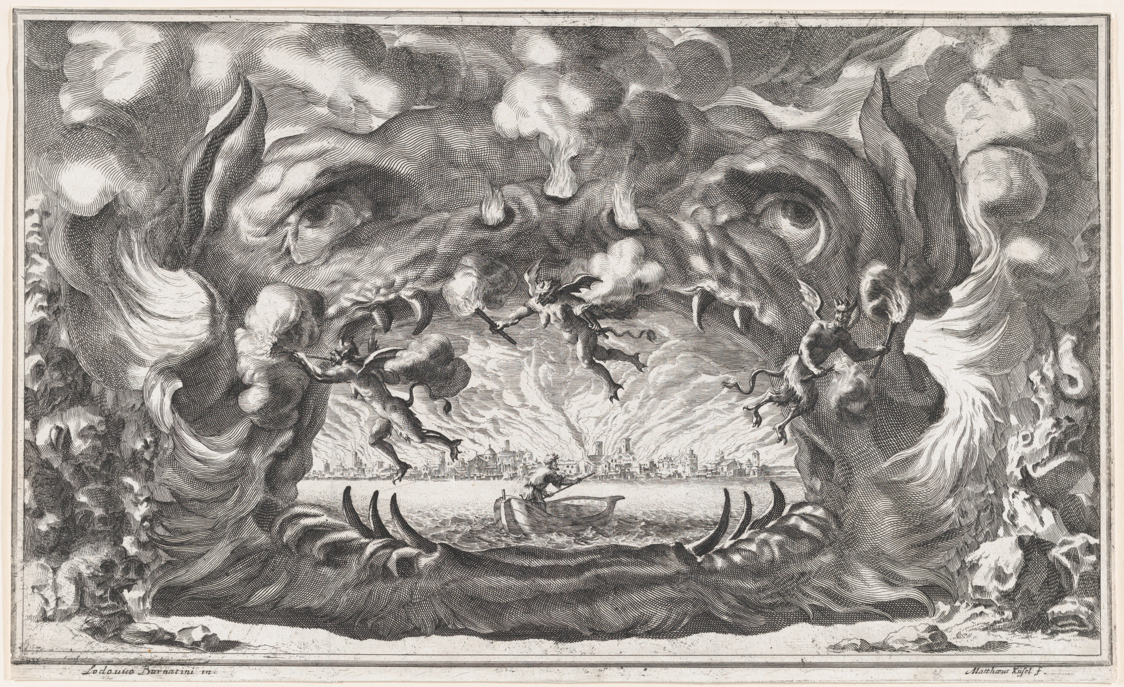 Print, Fete, Ornament & Architecture; Prints